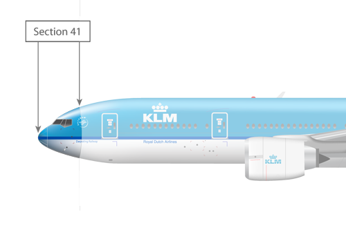 Illustration of fuselage section 41 on a Boeing 777.